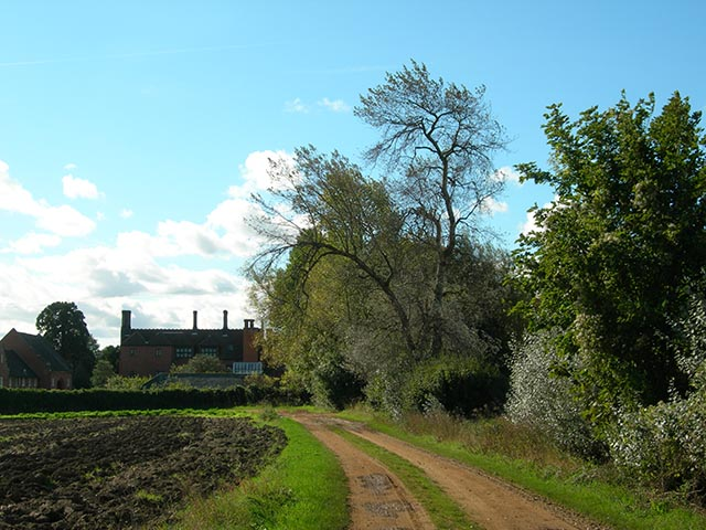 Hadham Hall Looking south along the Hertfordshire Way